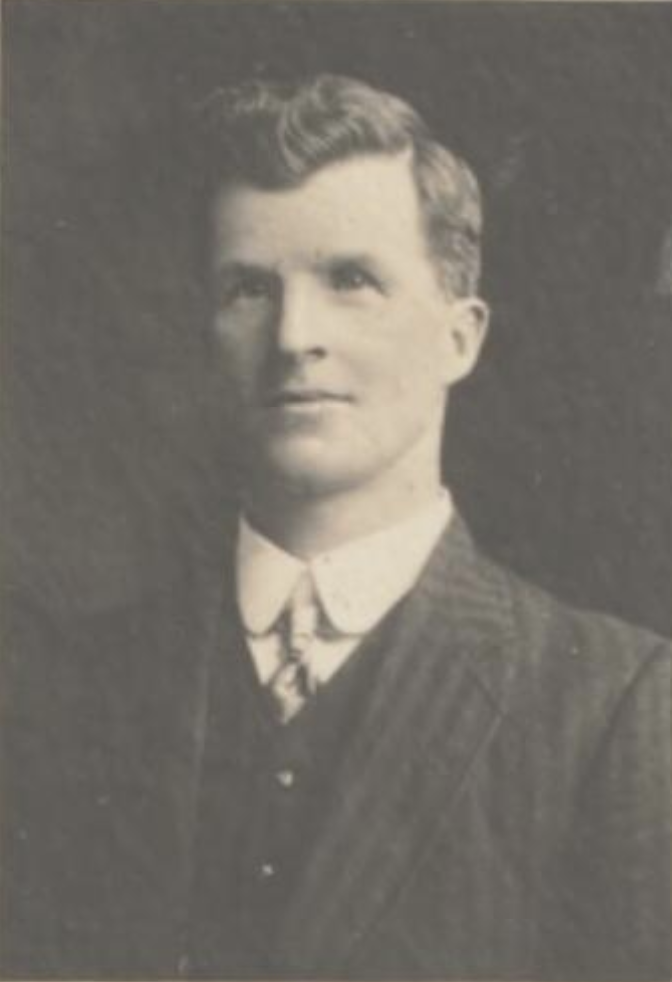 A 1910 black and white portrait of James Scullin, MP for Corangamite